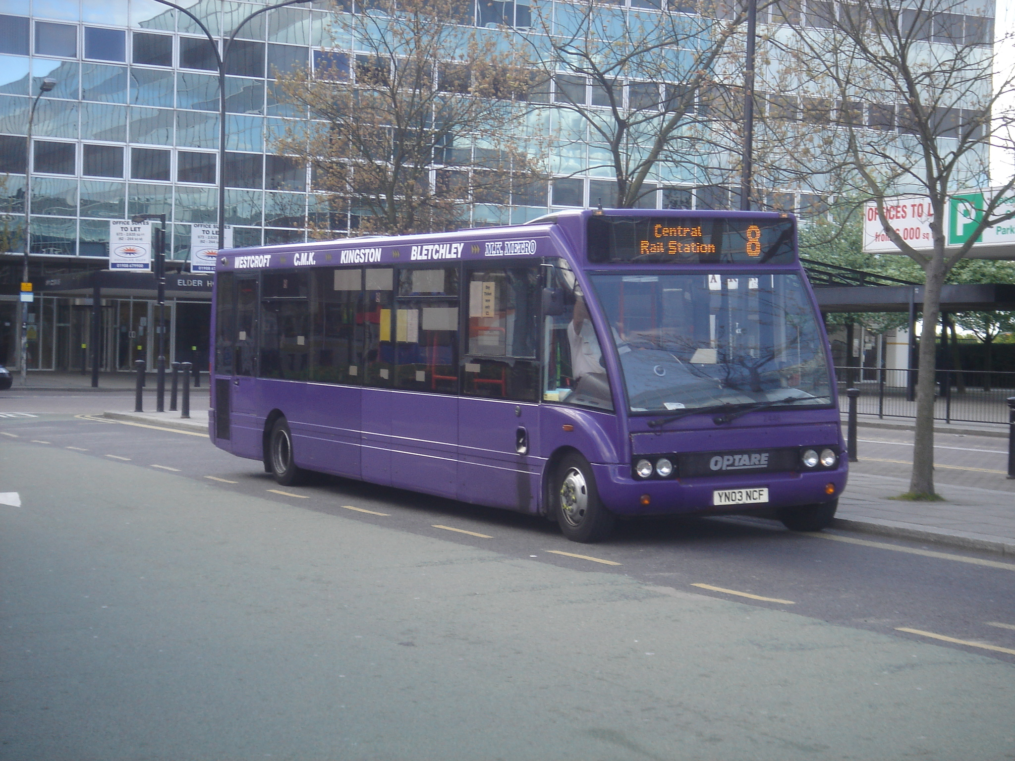 An MK Metro bus outside Milton Keynes Central railway station on route 8. It is an Optare Solo M920 midibus, registration mark YN03 NDF, Arriva fleet number 2446. Its purple livery and Westcroft-Bletchley branding are for this route. It should have a big "8" on the lower panels but it is missing on this side. Arriva acquired MK Metro in 2006. Early 2010 in Arriva rebranded the MK Metro fleet as Arriva. By October 2010, this bus was in service with Arriva Guildford & West Surrey, with fleet number 1508.